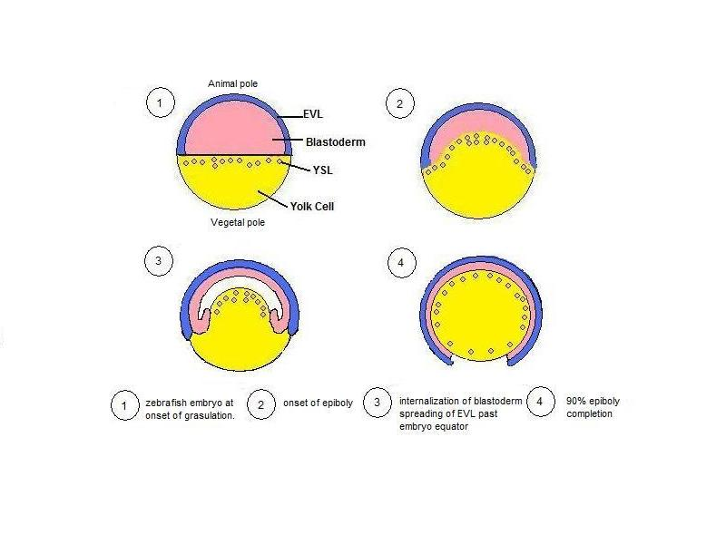 Schematic of epiboly in zebrafish